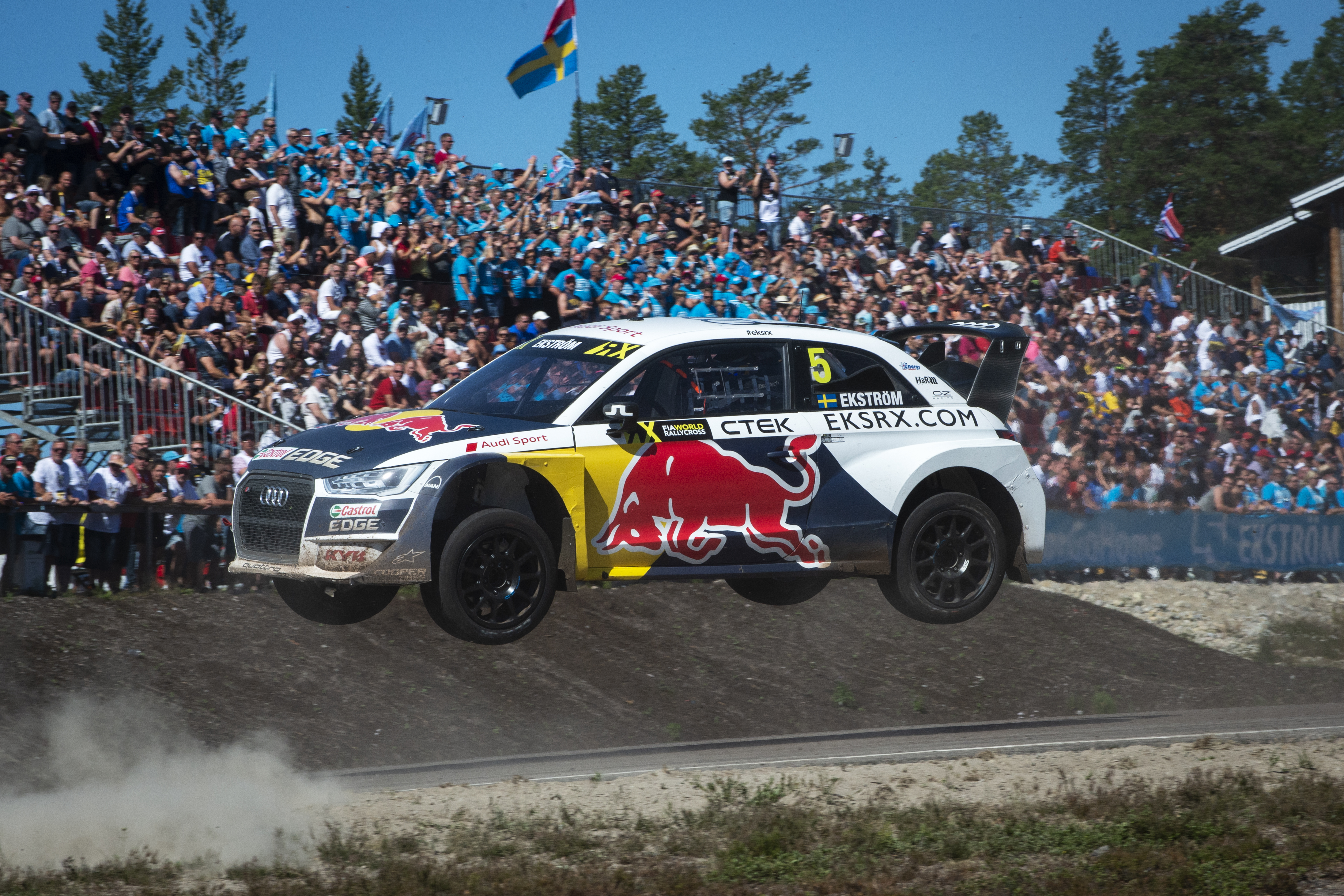 2018 FIA World Rallycross Championship // Round 6, Sweden, Holjes // Credit: EKS Audi Sport